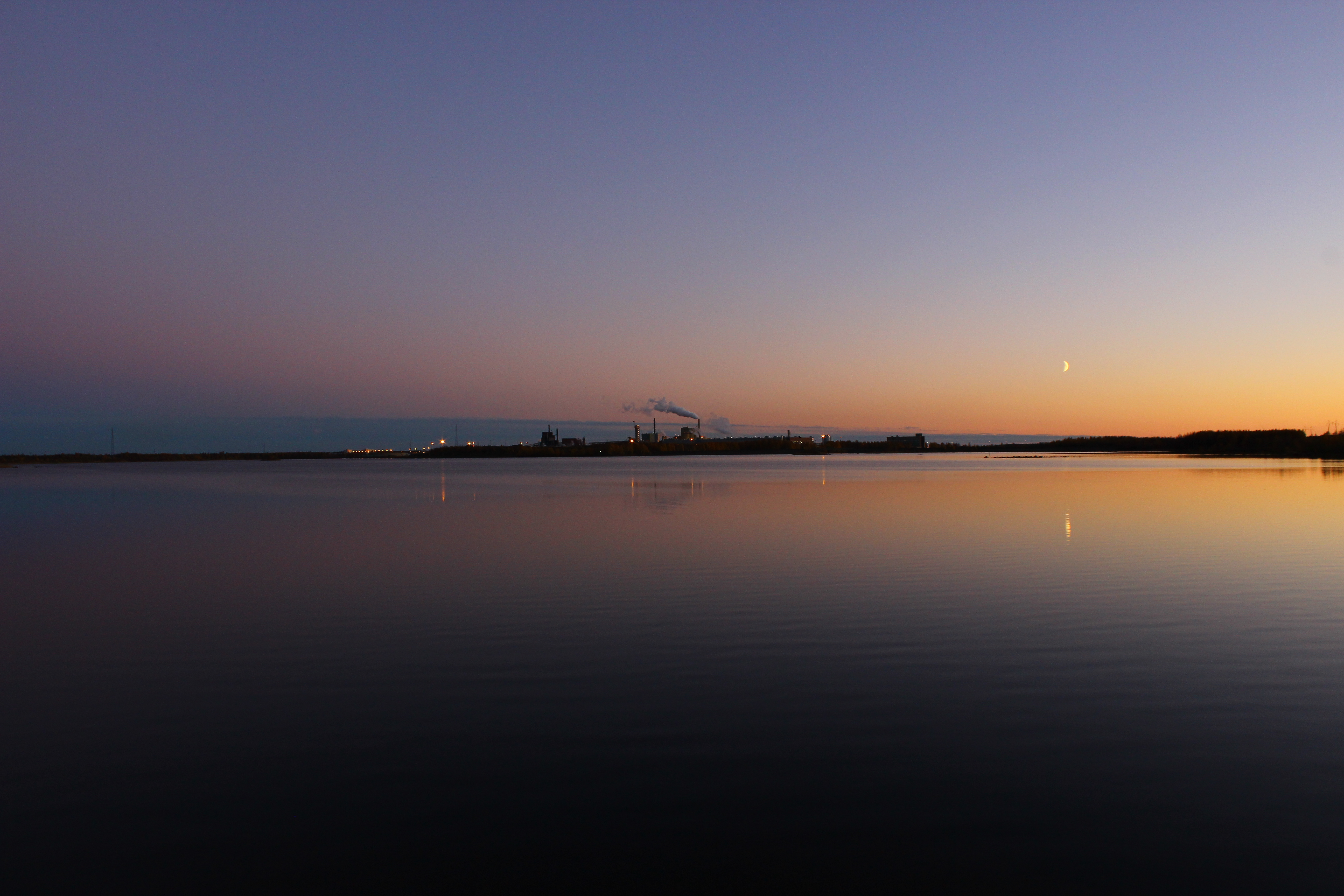 Ajos syksyllä